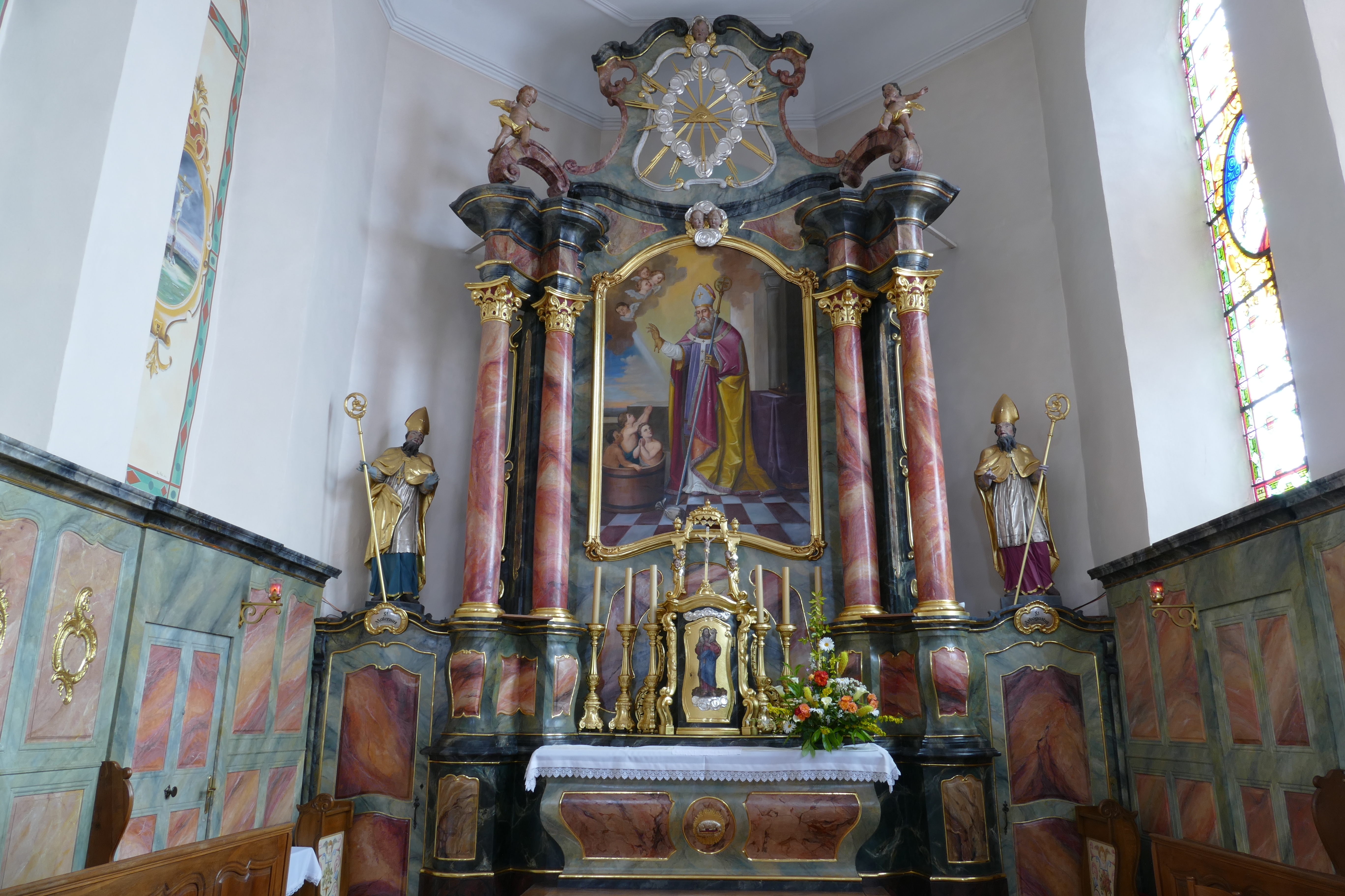 Alsace, Bas-Rhin, Wingersheim, Église Saint-Nicolas (PA00085242, IA67009255). Maître-autel (XVIIIe): This object is classé Monument Historique in the base Palissy, database of the French furniture patrimony of the French ministry of culture, under the references PM67000452 and IM67013163. Tableau "Saint-Nicolas ressuscitant trois enfants" (Inconnu, huile sur toile, 140cm de large, XIXe): Lambris et bancs de chœur (XVIIIe): This object is classé Monument Historique in the base Palissy, database of the French furniture patrimony of the French ministry of culture, under the references PM67000677 and IM67013174.